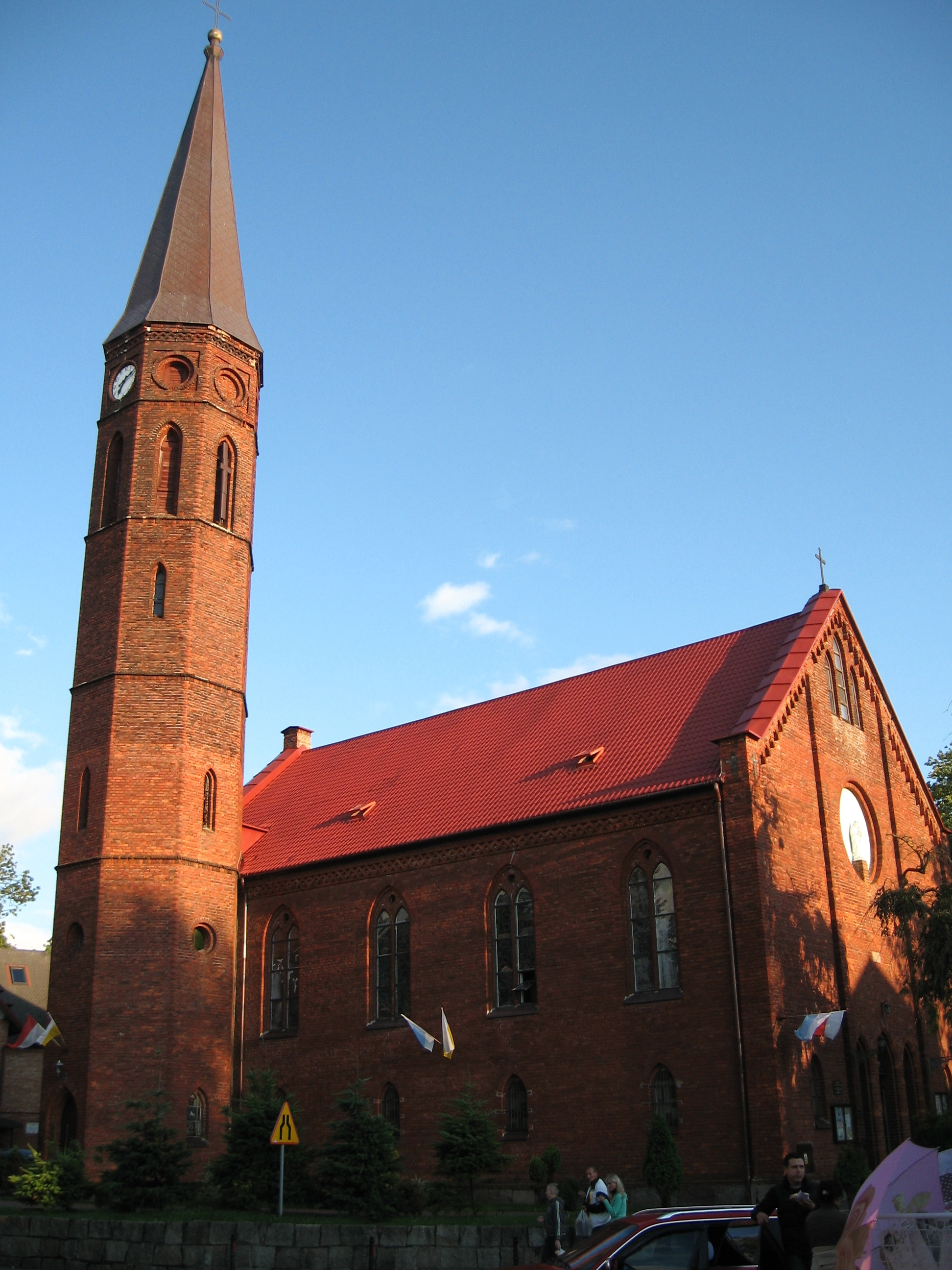 Church in Sarbinowo